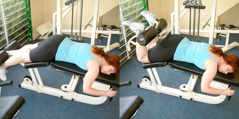 Thanks go to the model, Emily.